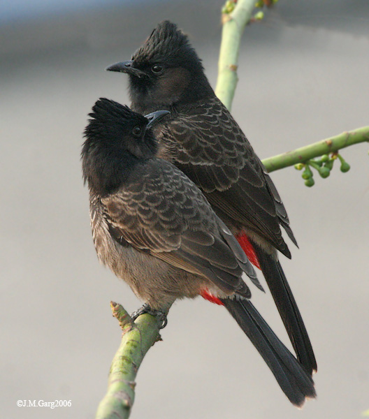 Red-vented Bulbul Pycnonotus cafer in Kolkata, West Bengal, India.